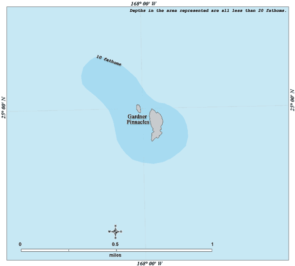 Bathymetric map of Gardner Pinnacles, Northwestern Hawaiian Islands